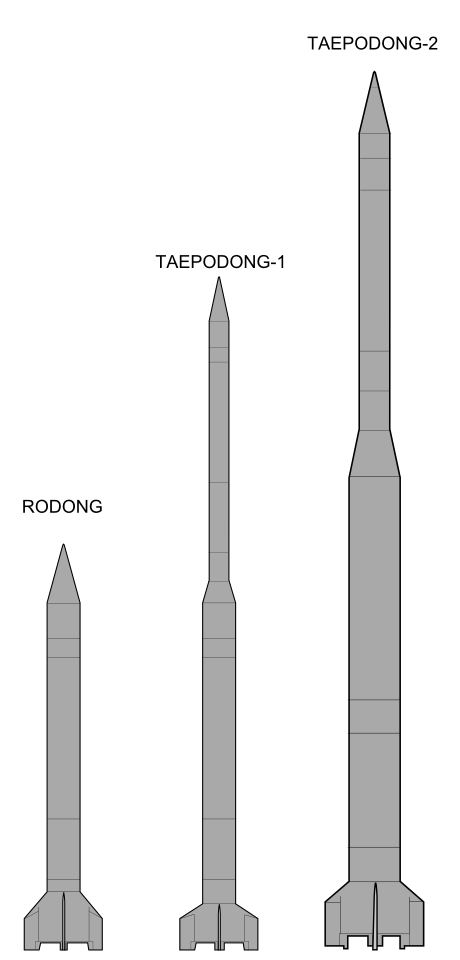 North Korea's Ballistic missiles "RODONG"(=NODONG), "TAEPODONG-1" and "TAEPODONG-2"